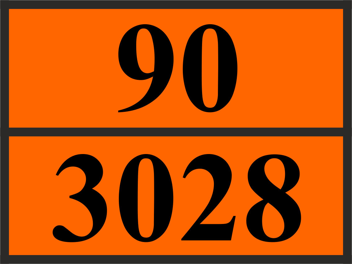 Marine diesel oil, ADR table